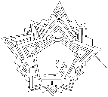 Citadel of Liege in 1817.